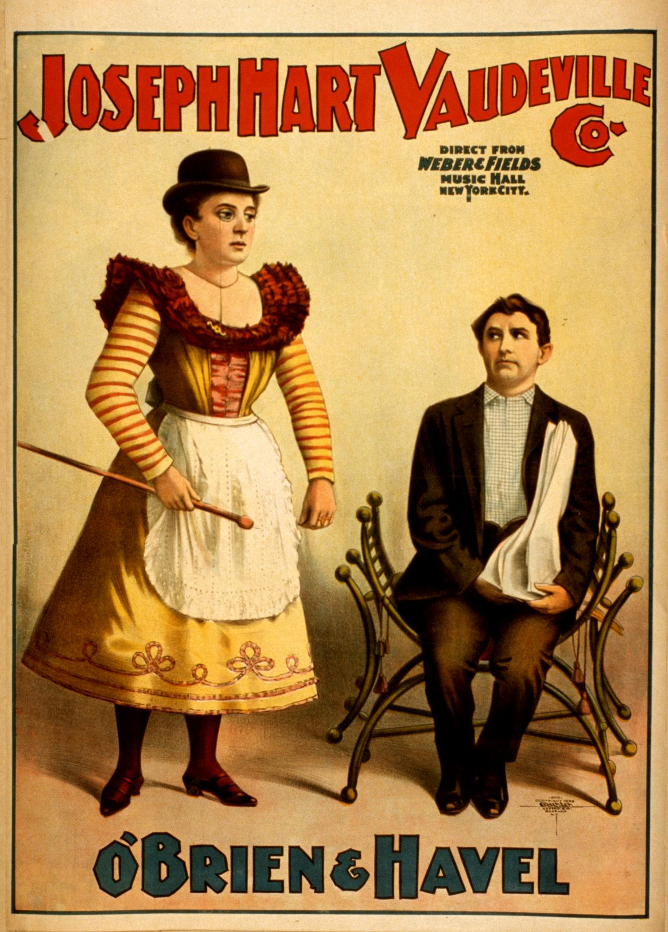 O'Brien & Havel, Joseph Hart Vaudeville Co. direct from Weber & Fields Music Hall, New York City.